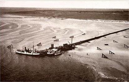 Alter Anleger Spiekeroog